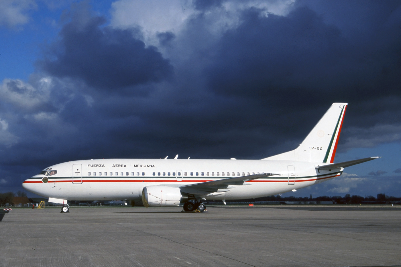 A great visitor on the flight line of 'my own' airbase, Valkenburg. Boeing 737-33A TP-02 brought the Mexican president to The Hague. Valkenburg 3 March 2002